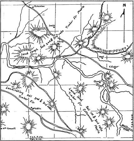 Original caption: "The Lambs' Cabin and Vicinity, 1855. This hand-traced copy of a portion of Surveyor General C. K. Gardner's field survey is dated August 13, 1855. The Lambs' cabin was located near the Clackamas river on the road to Phillip Foster's farm, today's Foster Road.